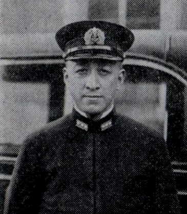 Tokugawa Takesada is an Imperial Japanese Navy Vice Admiral